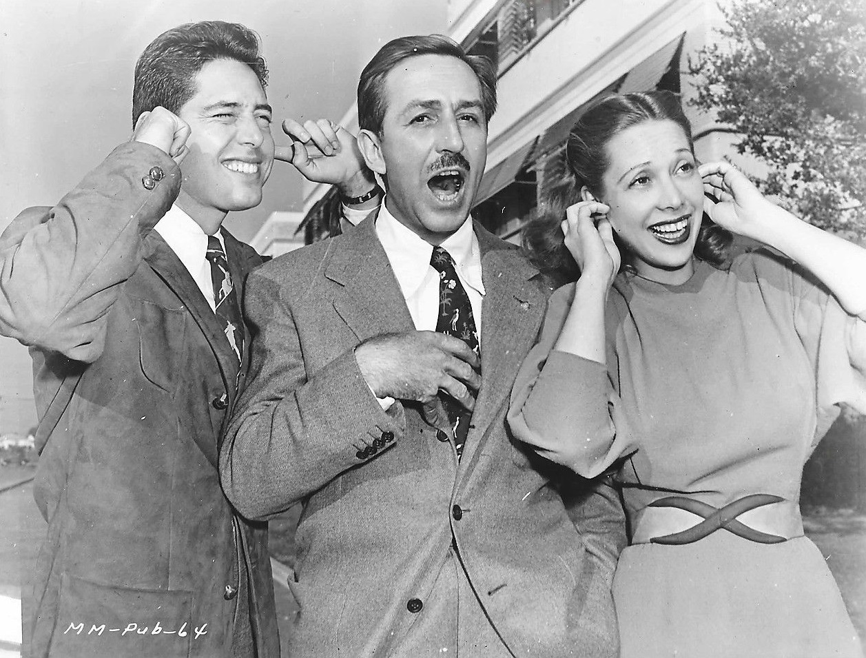 Promotional still for Make Mine Music (1947) with Andy Russell, Walt Disney, and Dinah Shore.